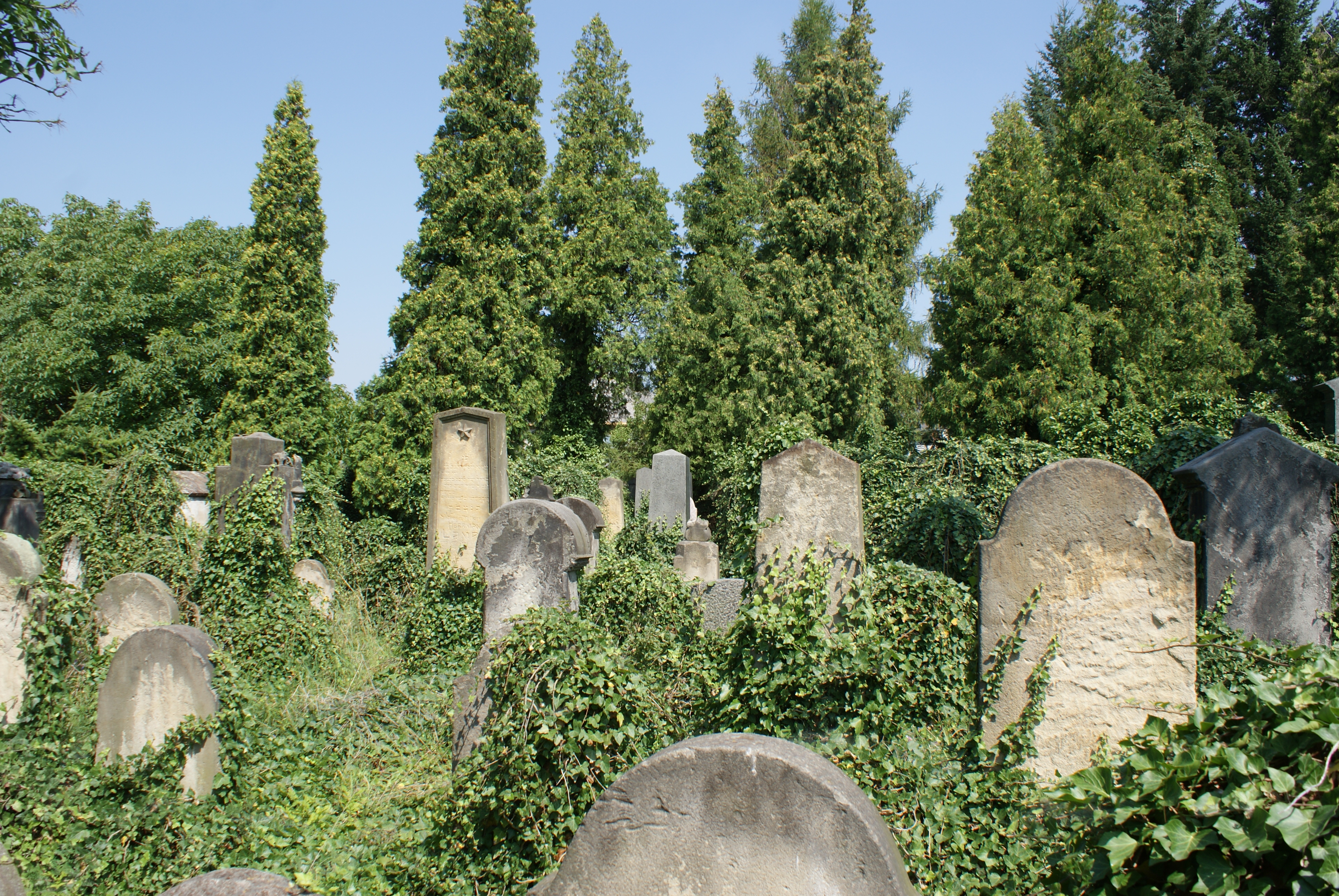 Jewish cemetery in Nové Strašecí, a town in Rakovník District, Central Bohemian region, Czech Republic. Česky: Židovský hřbitov v Novém Strašecí, okr. Rakovník